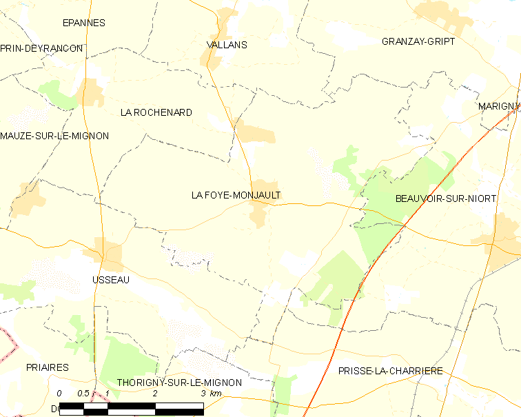 Map of French municipality La Foye-Monjault